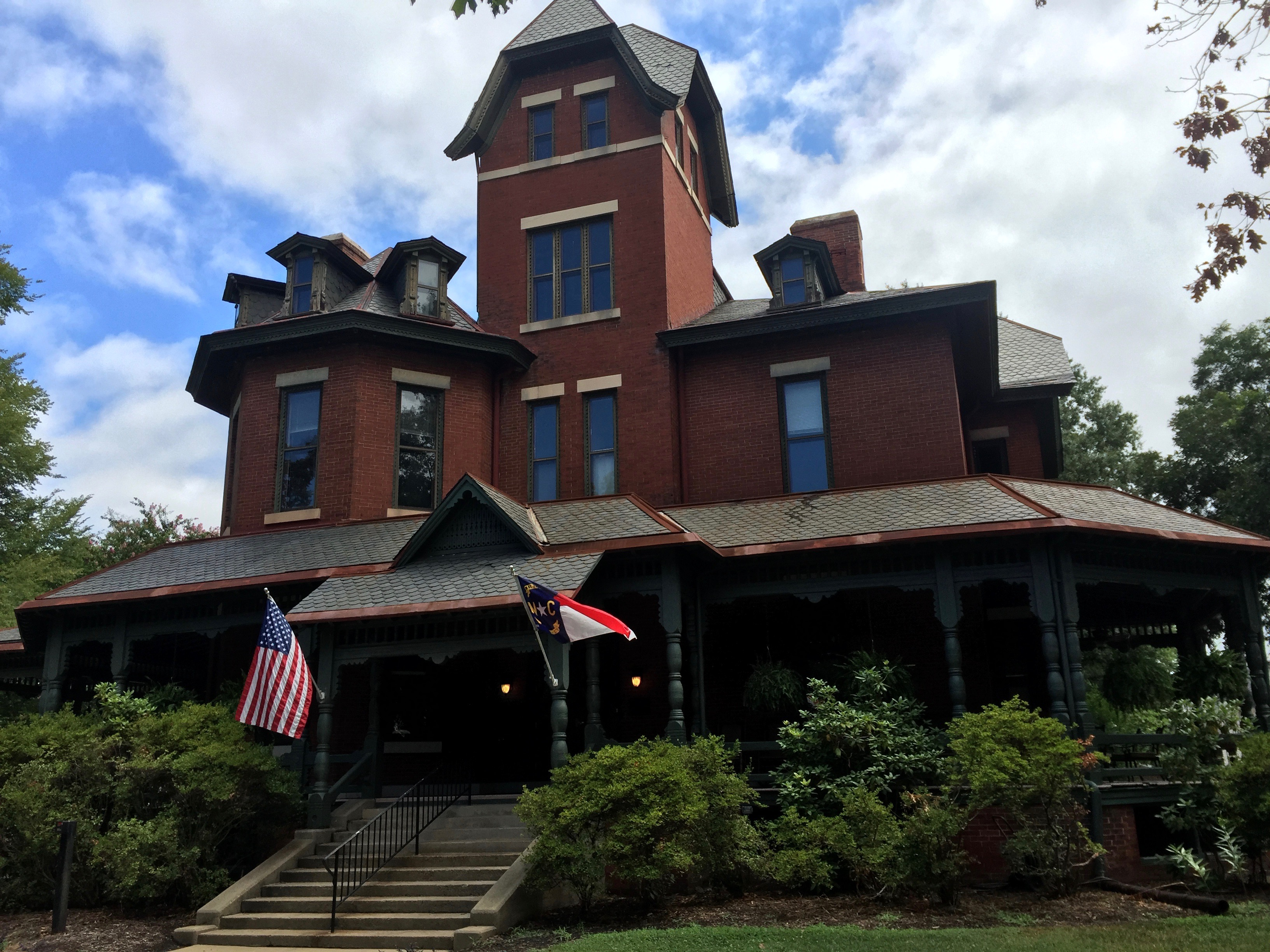 The Hawkins-Hartness House was constructed along with many other grand mansions on North Blount Street in downtown Raleigh during the late 19th Century, when the street was a fashionable address and home to many of North Carolina's political and economic elite. Constructed in 1881, the Eastlake-style house has a brick veneer exterior and a central tower that balances the rest of the house around it. The house was originally home to Dr. Alexander Hawkins, a resident of Florida, lived in the house until 1922. The most prominent resident of the house was James A Hartness, who was the North Carolina Secretary of State during the beginning of the Great Depression. Since 1969, the house has been home to state offices, and is now home to the office of the Lieutenant Governor of North Carolina.